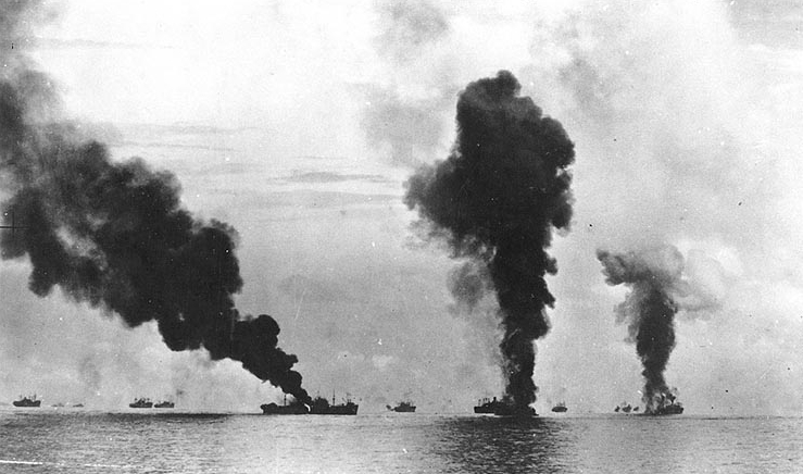 The U.S. Navy Heywood-class transport USS George F. Elliott (AP-13) burning after a Japanese air attack off Guadalcanal on 8 August 1942. She had been hit by a crashing enemy aircraft. The other two smoke plumes mark the locations of planes that crashed into the water.